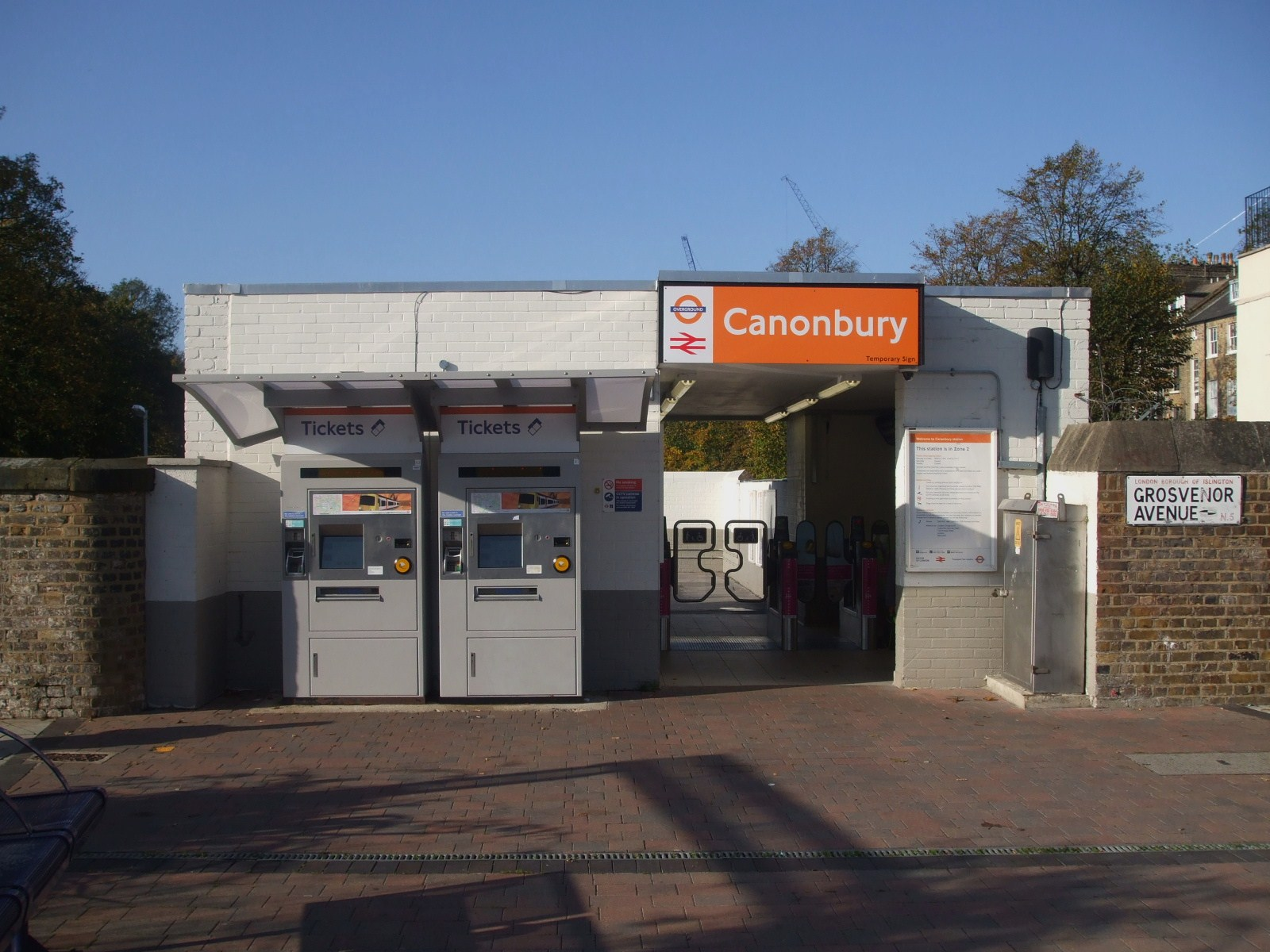 Canonbury station entrance